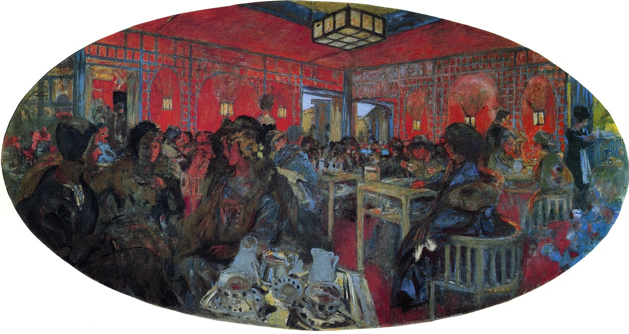 A cafe scene by Edouard Vuillard for the Grand Teddy cafe and bar